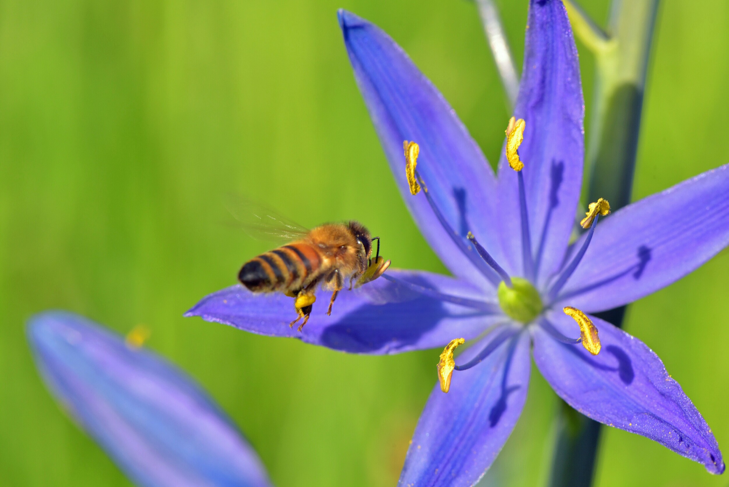 honey bee on camas flower